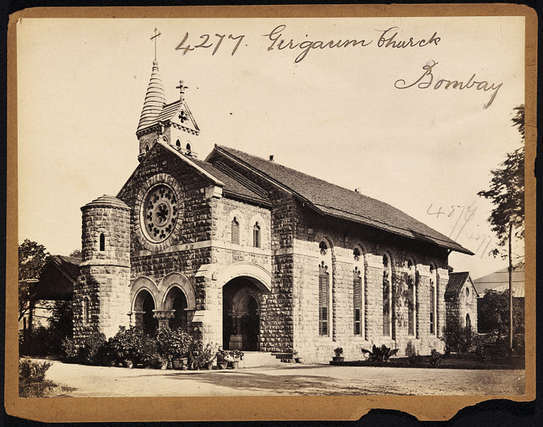 Whole plate albumen print from wet collodion glass negative.